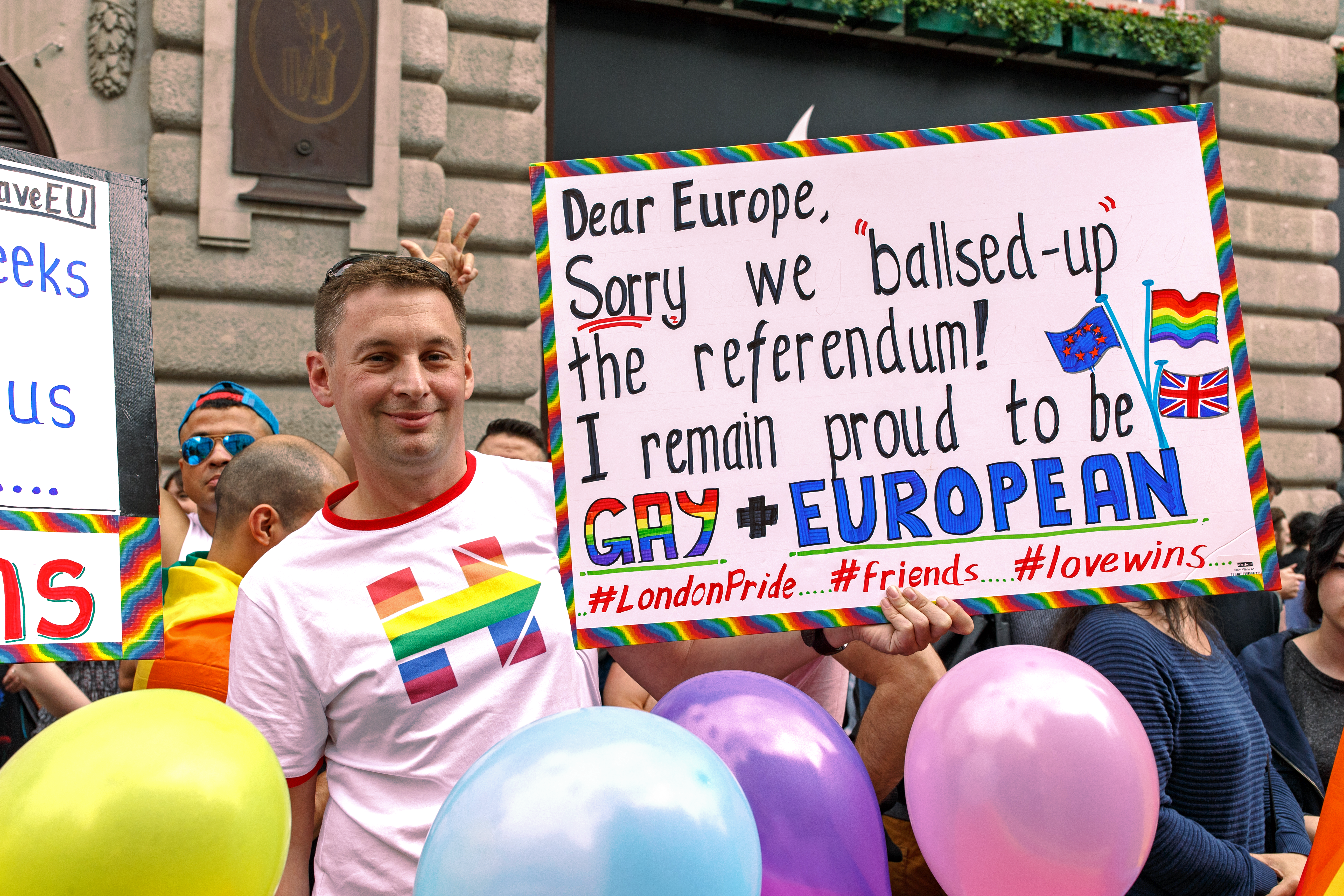 A man holding an anti-Brexit sign at Pride in London 2016. It states he is proud to be "gay and European".